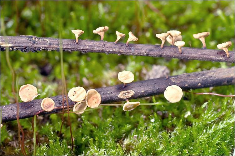 Fruit bodies of the ascomycete fungus Hymenoscyphus pseudoalbidus Queloz, Grünig, Berndt, T. Kowalski, T.N. Sieber & Holdenr.. Photographed in Bovec basin, East Julian Alps, Posočje, Slovenia. See Mushroom Observer page for detailed collection notes. Note added August 2015: Hymenoscyphus pseudoalbidus (more properly Hymenoscyphus fraxineus) is indistinguishable from Hymenoscyphus albidus so any field identification should be considered doubtful.